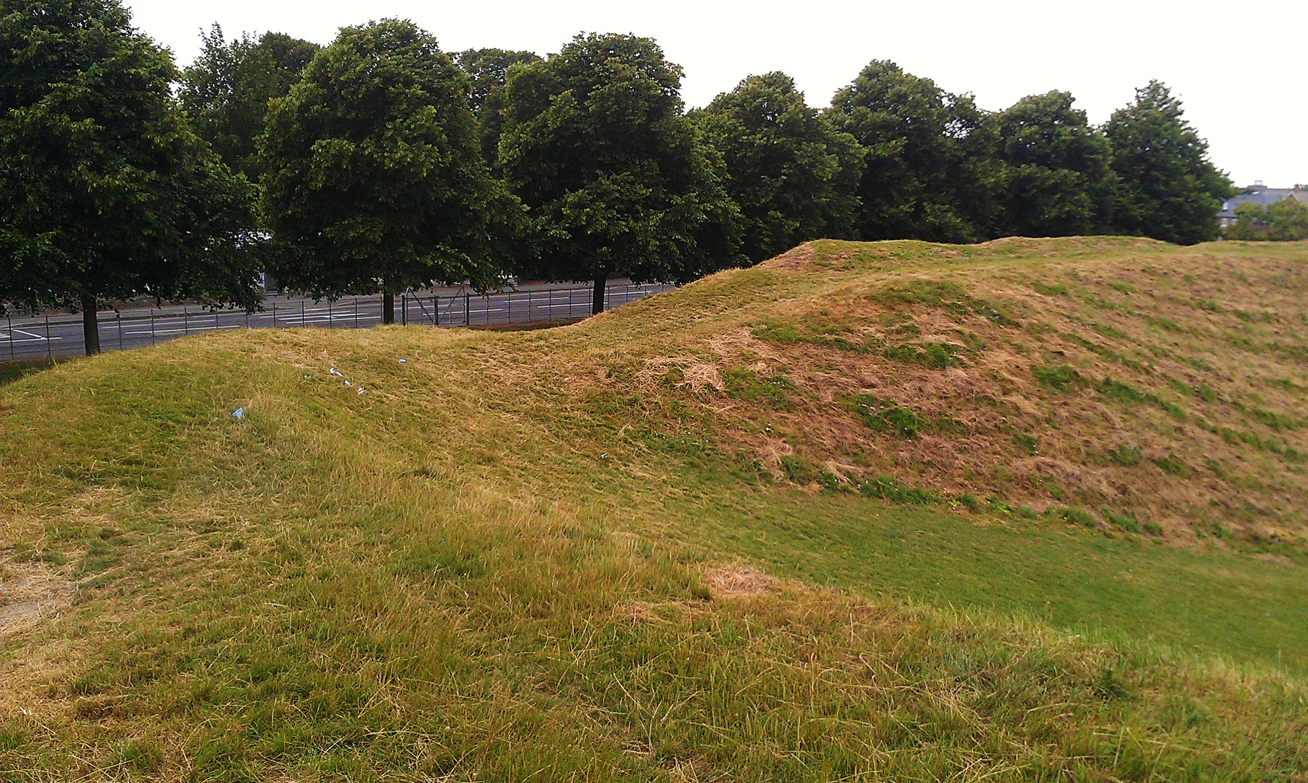 The sloping second entrance to Maumbury Rings in Dorchester, Dorset.